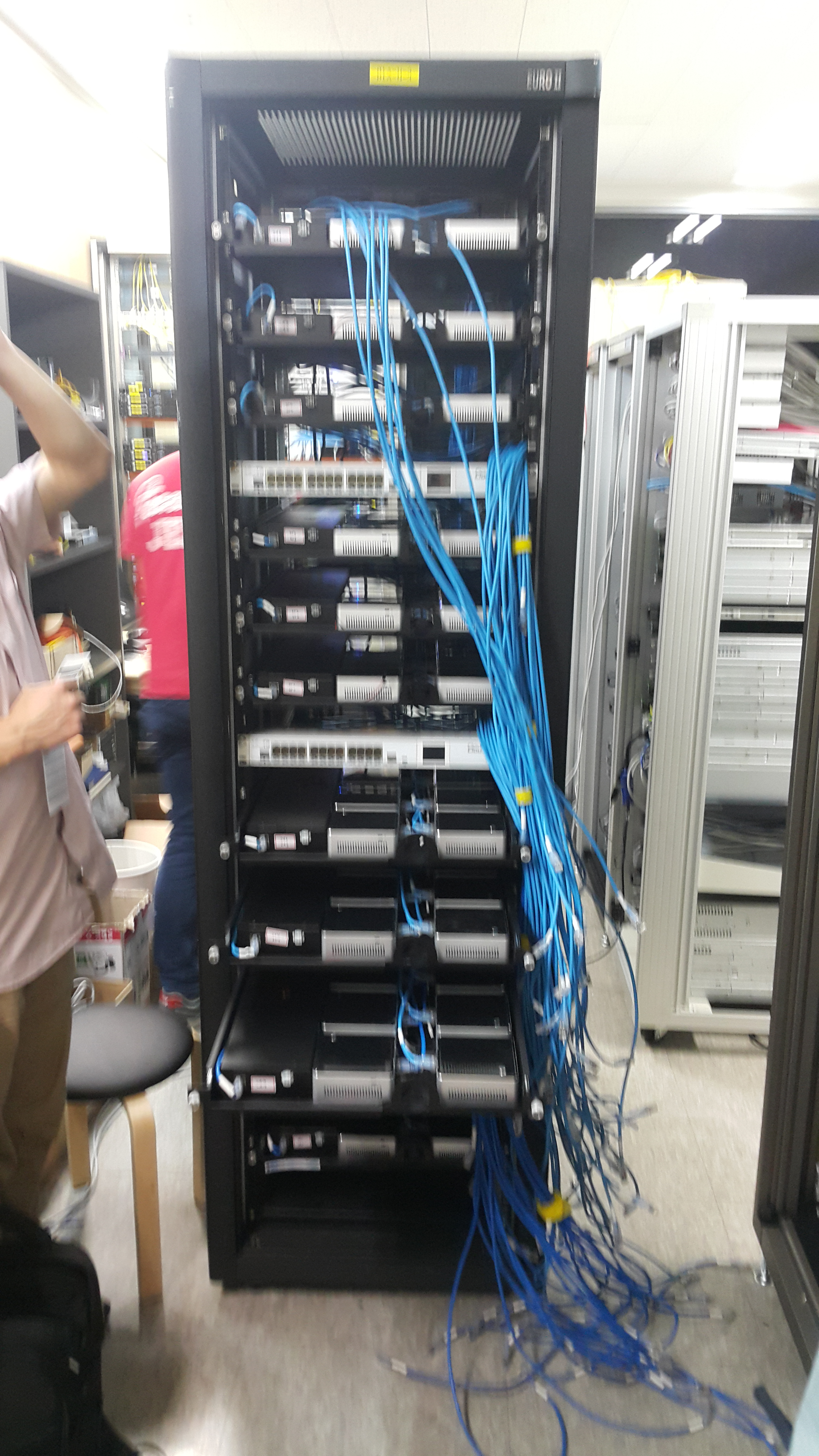 NUCserver universal solution 8